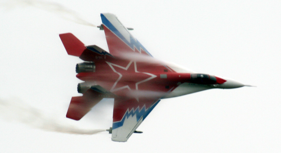 Mikoyan-Gurevich MiG-29OVT prototype, tale number 156, C/N 2960905556